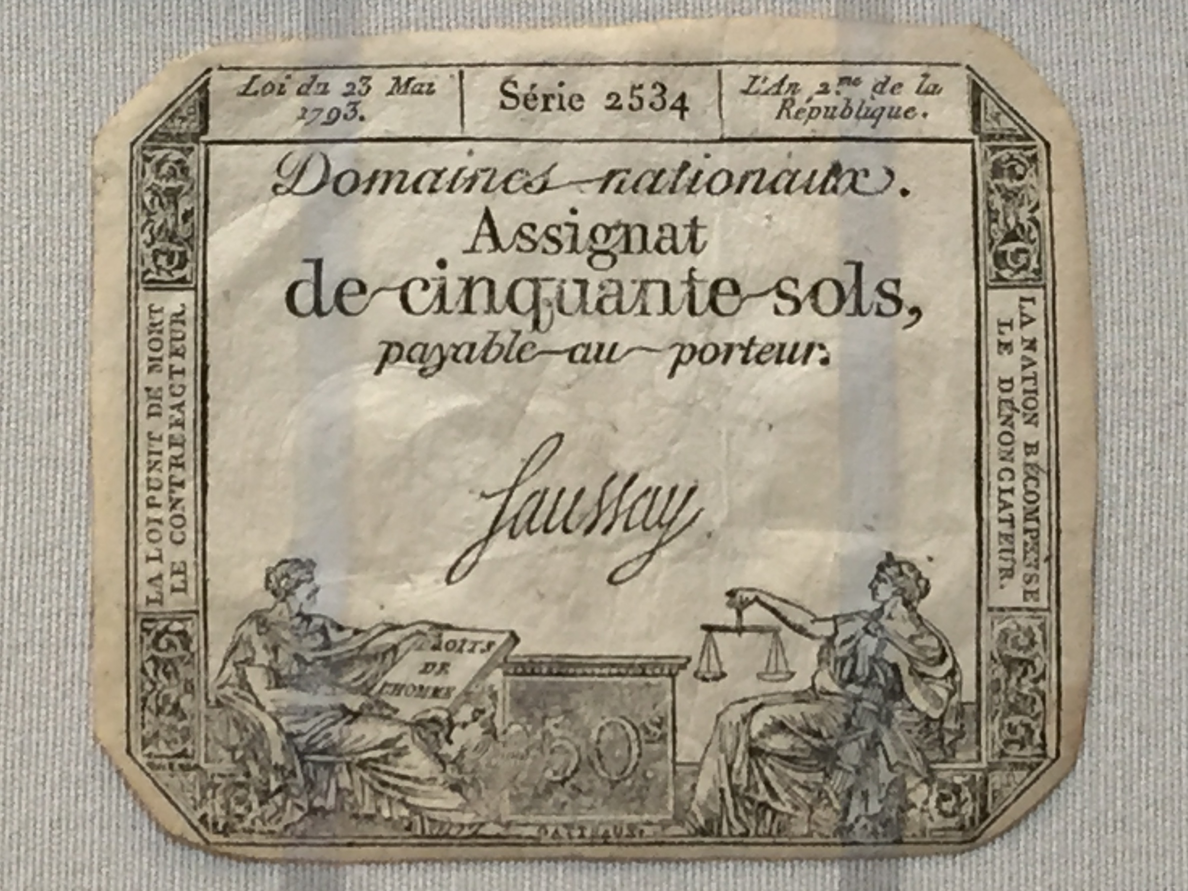 French banknote of 50 sols, emitted by the revolutionary government in the 2nd year of the Republic (1793-1794 of the Gregorian calendar). British Museum, London, UK.